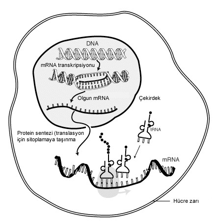 Description: The interaction of mRNA in a cell. *Source: [1] (file) *License: "All of the illustrations in the Talking Glossary of Genetics are freely available and may be used without special permission." [2]